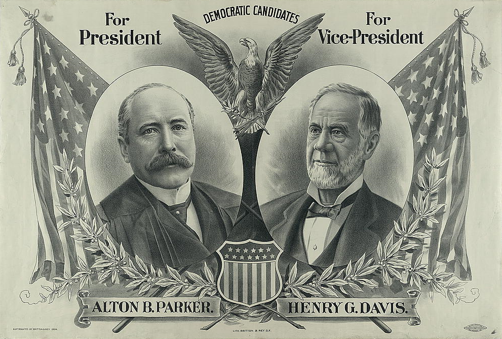 1904 Democratic candidates. For president, Alton B. Parker. For vice-president, Henry C. Davis